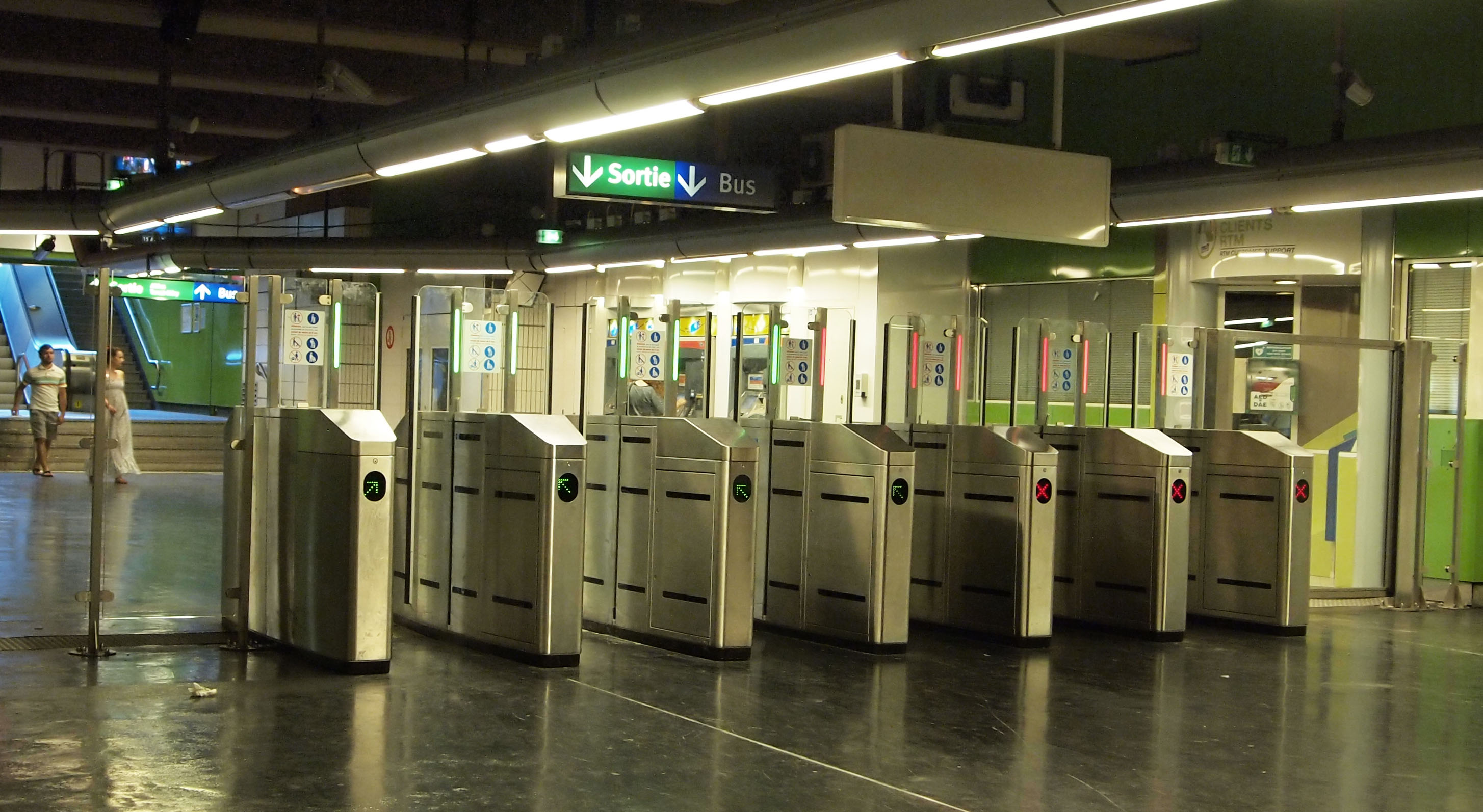 The gates of the metro station Périer in Marseille.